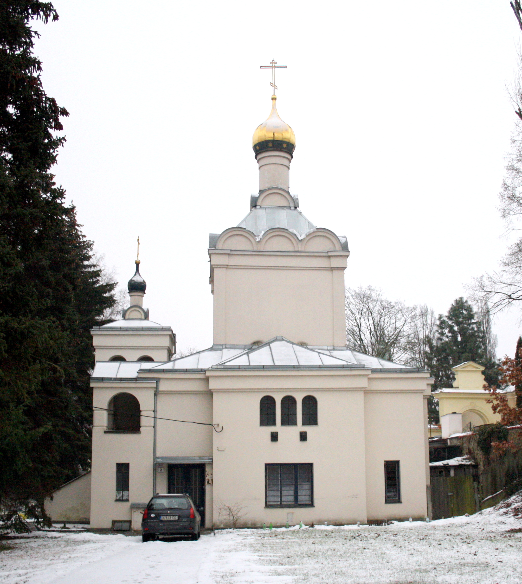 Orthodox church Saint Wenceslaus in Třebíč, Horka-Domky.